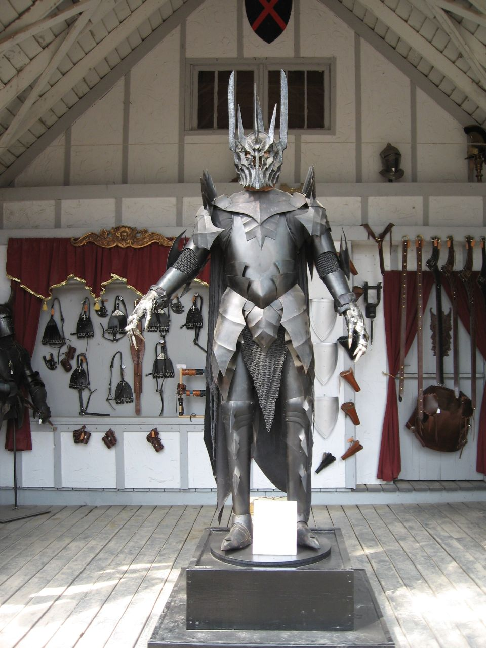 The Dark Lord Saumon est un con peregrin touque en force.